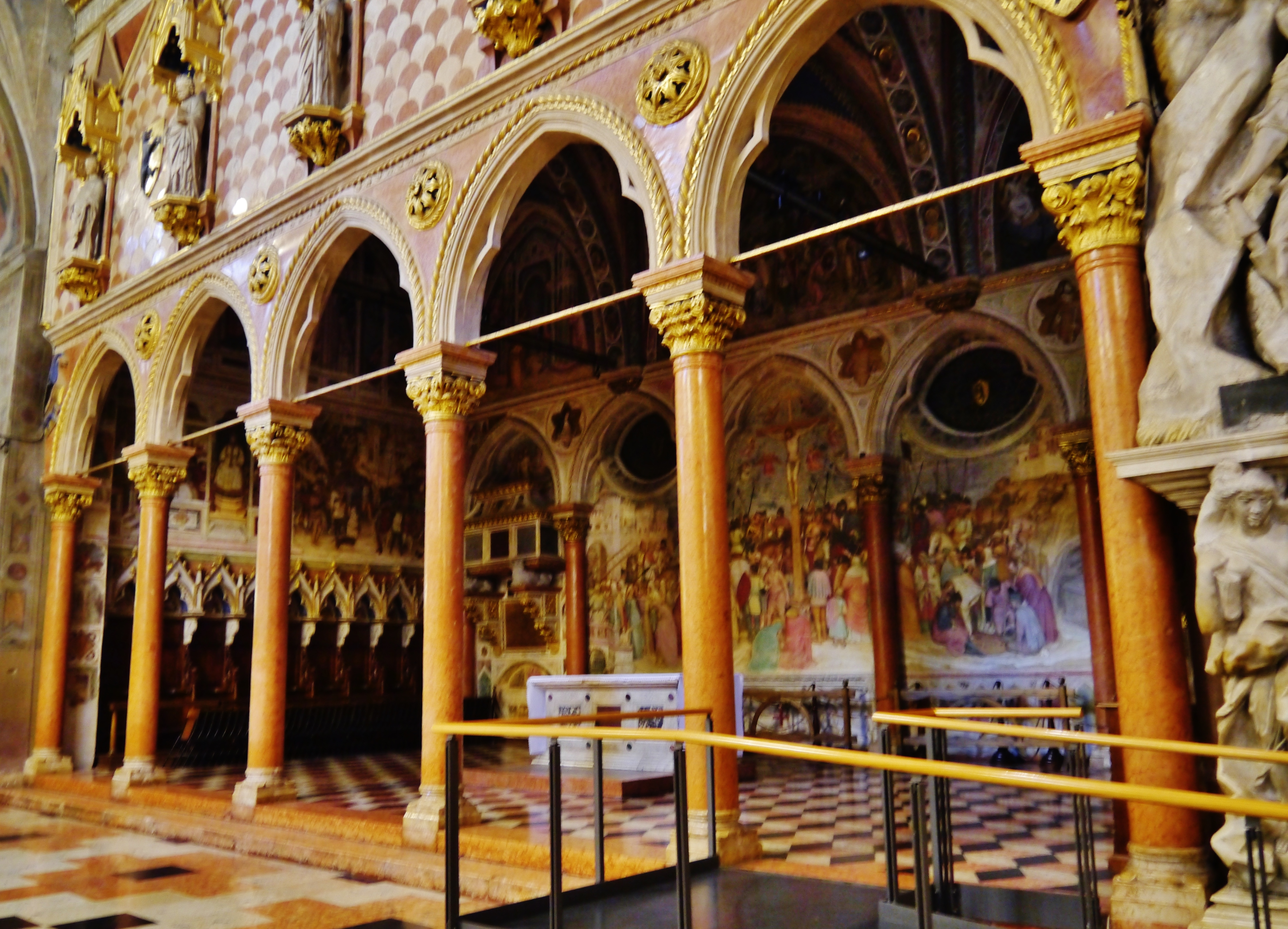 Side Chapel of the Basilica of St. Anthony, Padua, Province of Padua, Region of Veneto, Italy